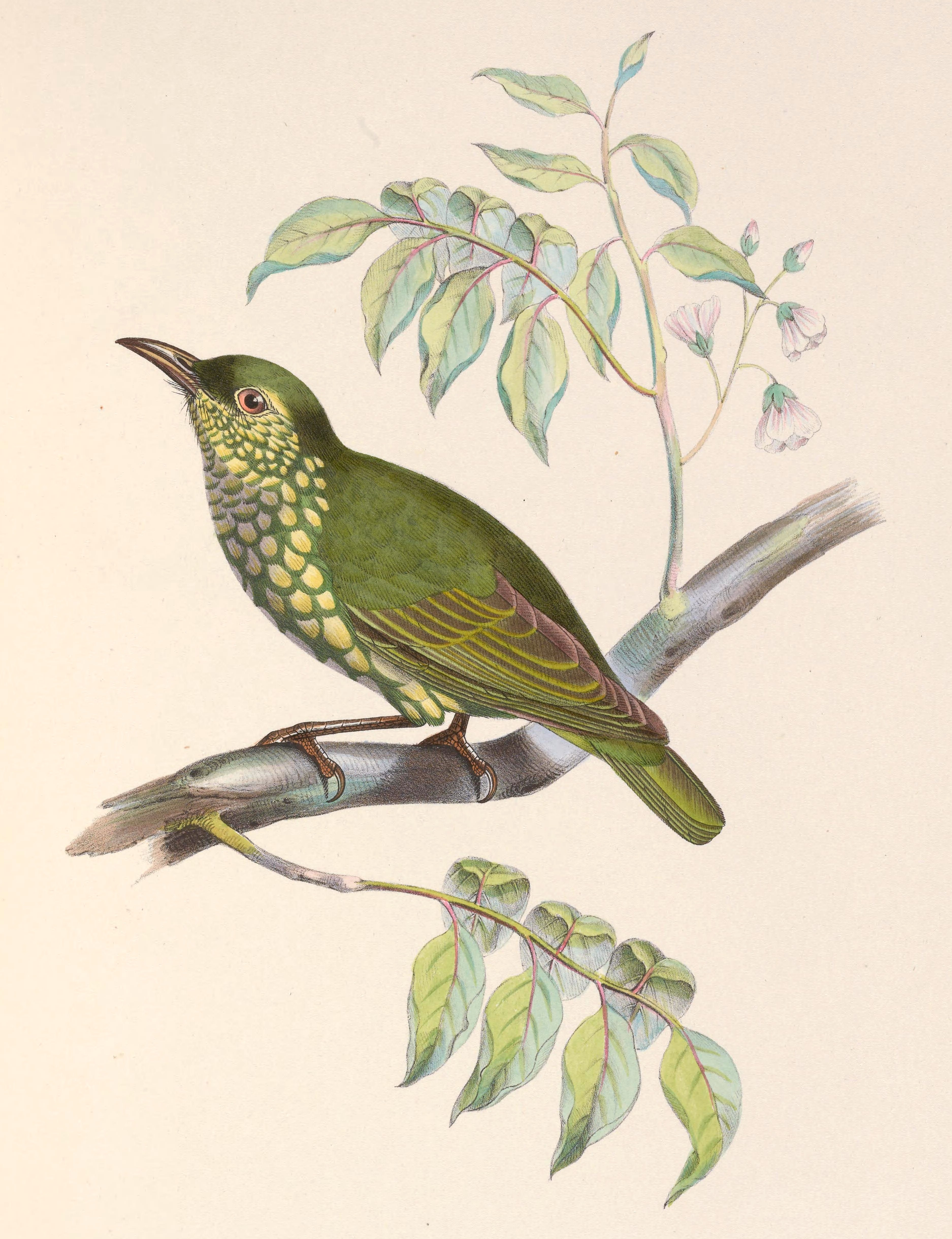 Philepitta isidori = Philepitta castanea (Velvet Asity) - young